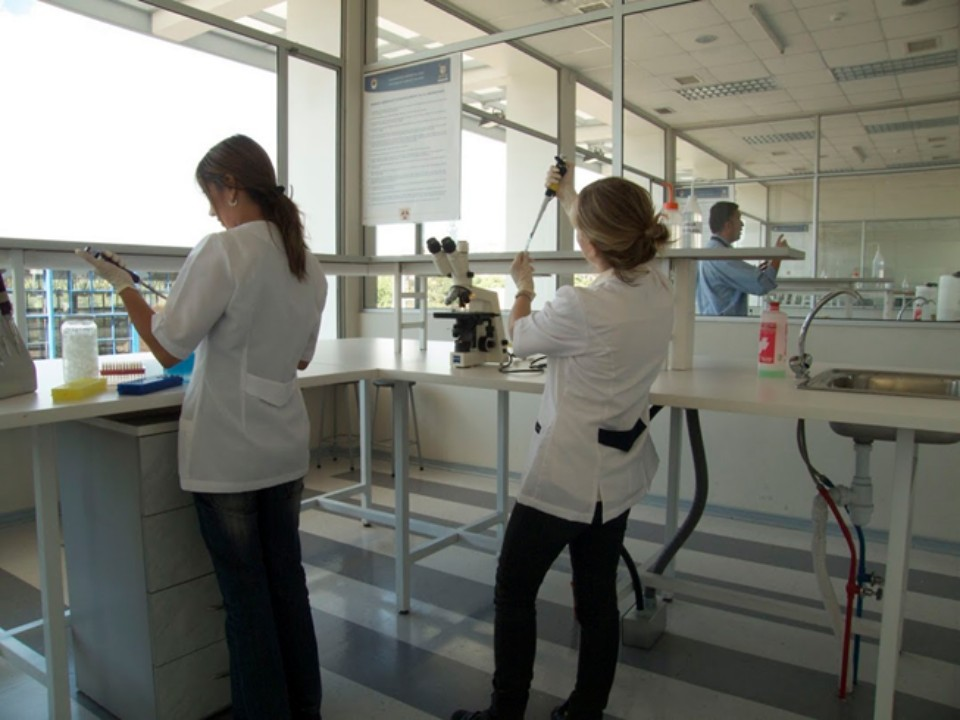 New laboratories in biochemistry at Universidad de Valparaíso. Supported by MECESUP Program